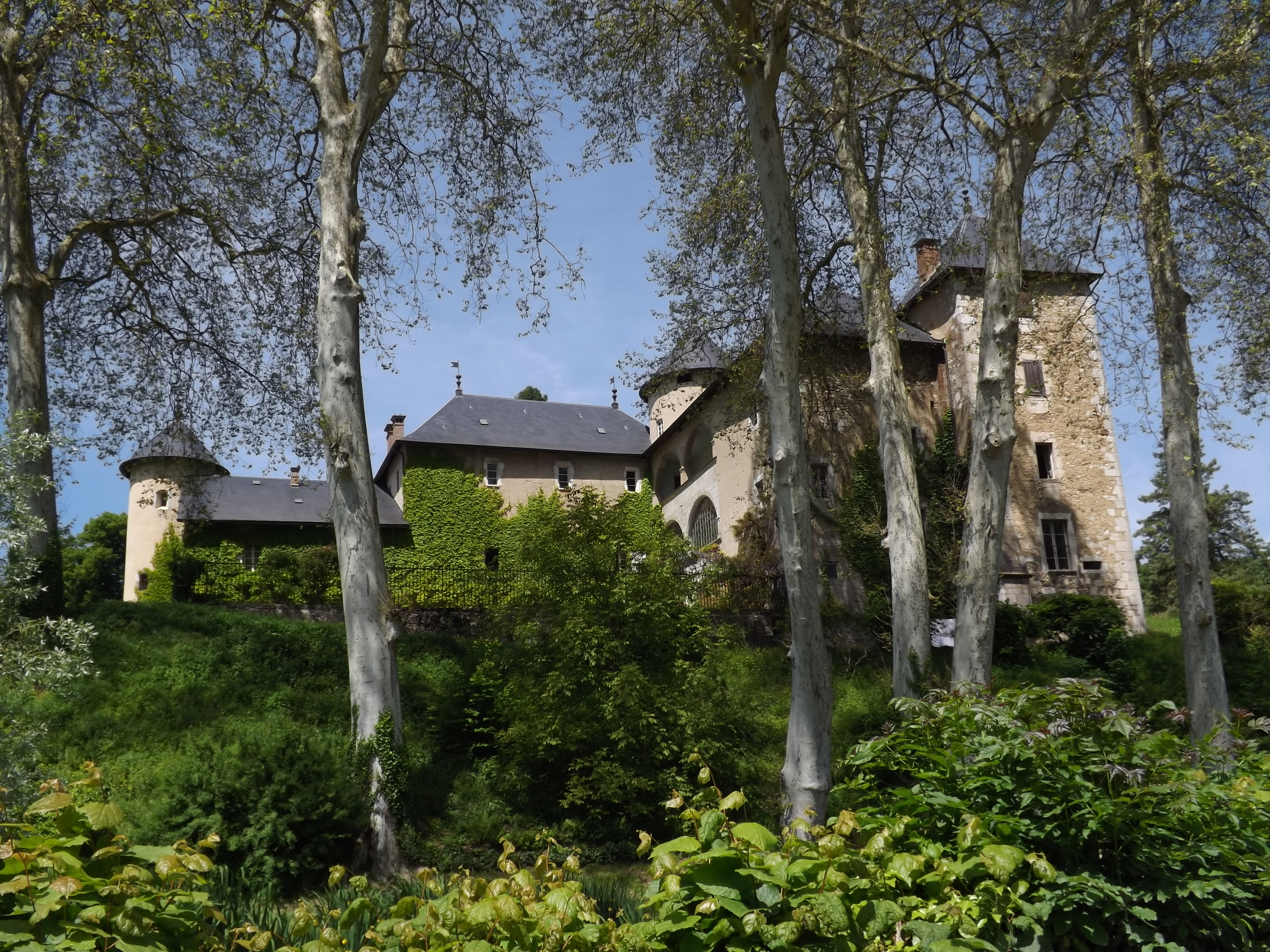 Sight of the château de Sonnaz castle, in Sonnaz, Savoie, France.